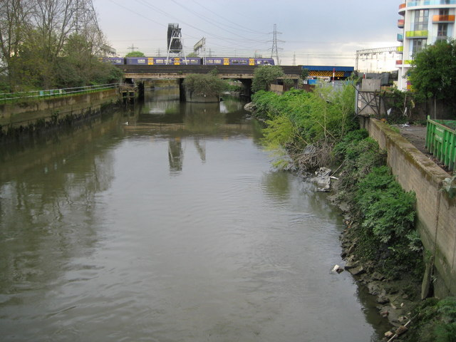 Waterworks River in Stratford To the west of Stratford the River Lee bifurcates and three braids to the main river have developed. They are, from east to west, Waterworks River, City Mill River and Pudding Mill River. This is Waterworks River viewed from the Bridgwater Road bridge. A train from Liverpool Street bound for Stratford trundles across the far railway bridge.